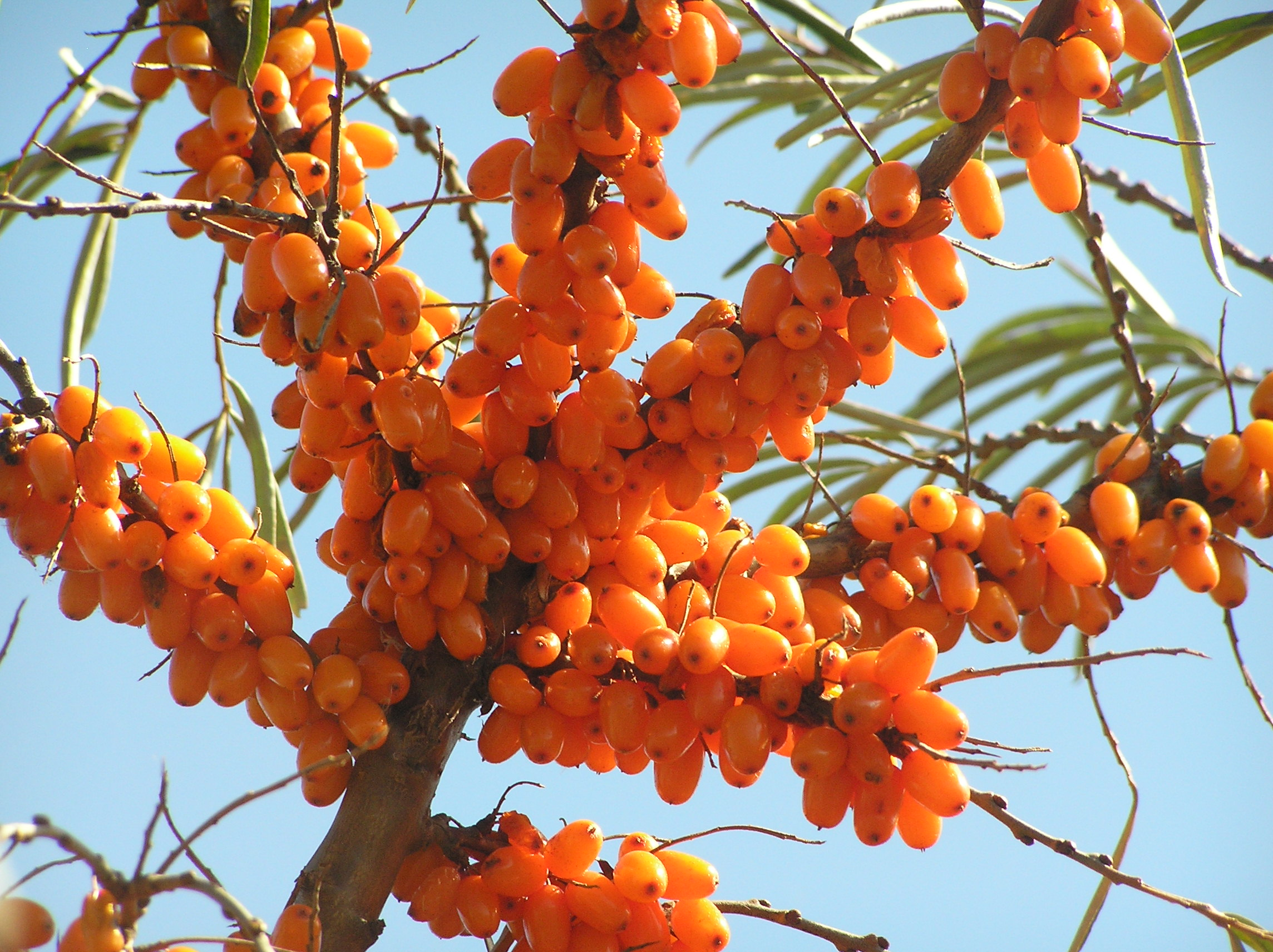 Sea buckthorn berries from Russia